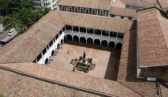 The Cloister is the main campus of the University and is located in the Candelaria neighborhood, historical and cultural center of Bogotá.